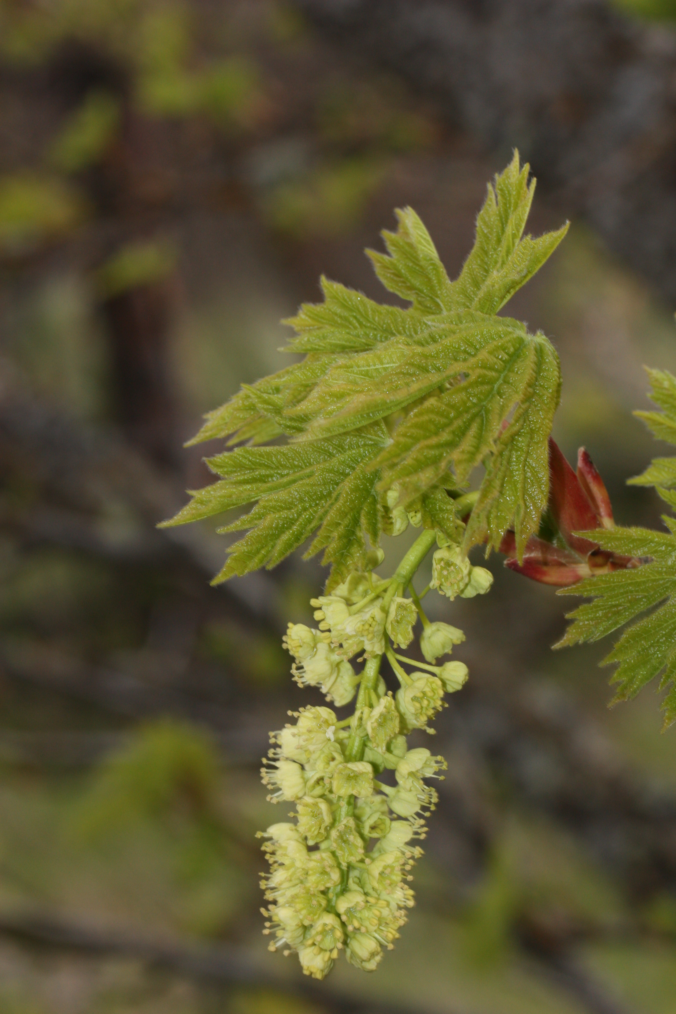 Bigleaf Maple Viewpoint location: McCall Point Trail, Mayer State Park Viewpoint elevation: 234 meter (767 ft) Location source: Garmin GPSmap 60CSx Location Datum: WGS84